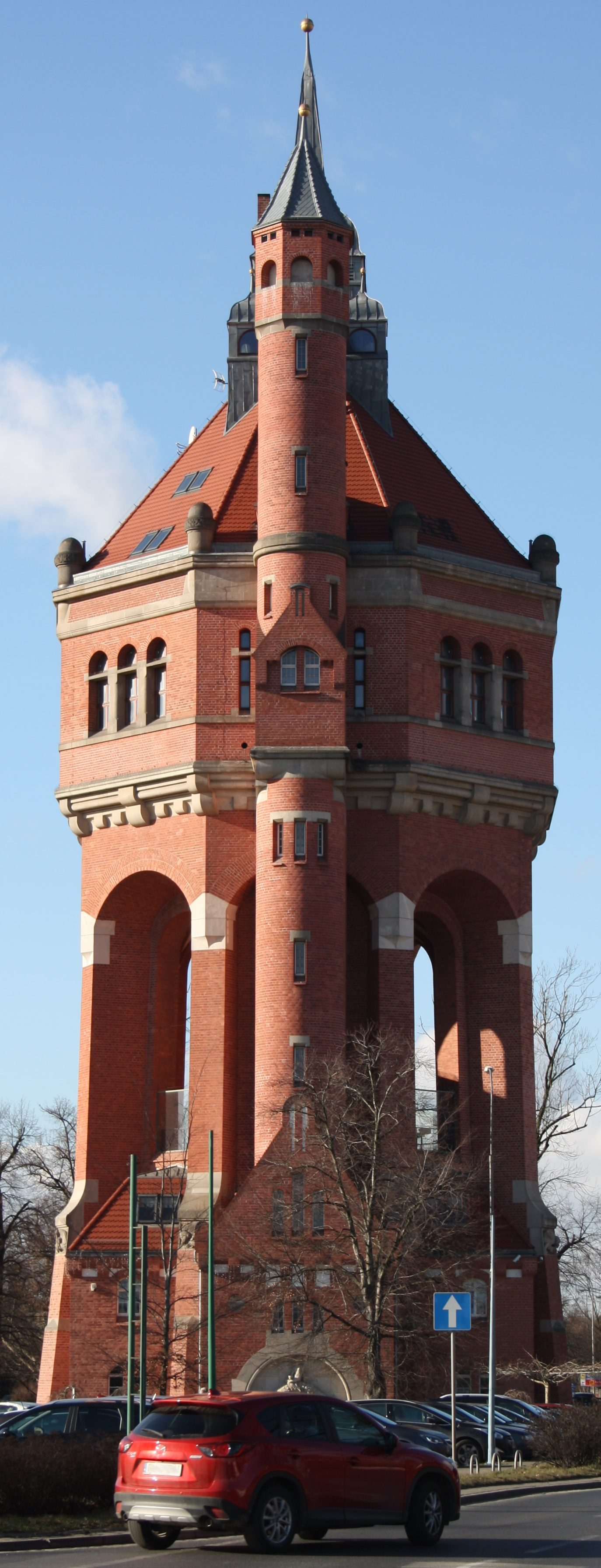 Wrocław water tower Wisniowa